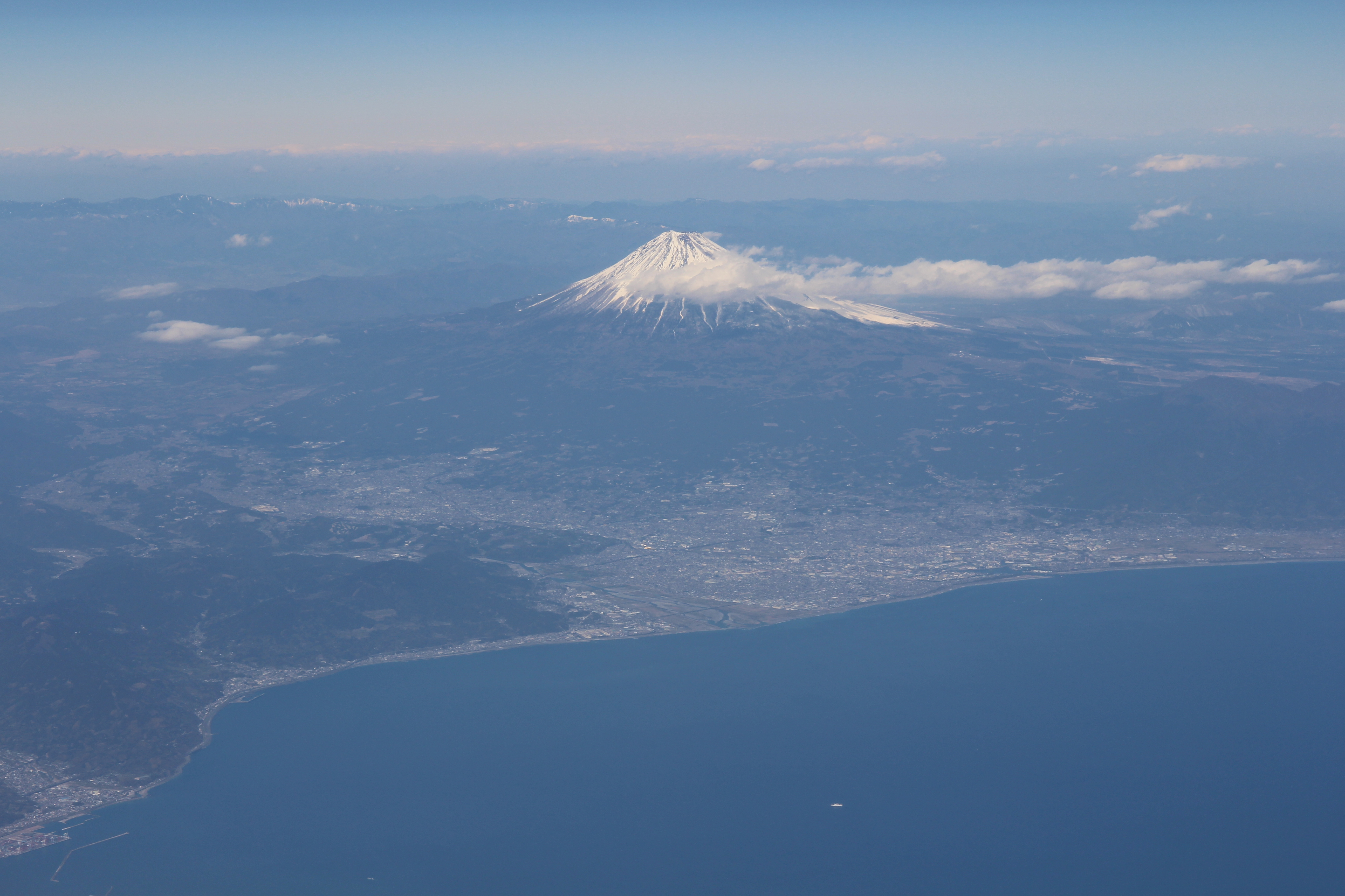 Aerial view of Mount Fuji